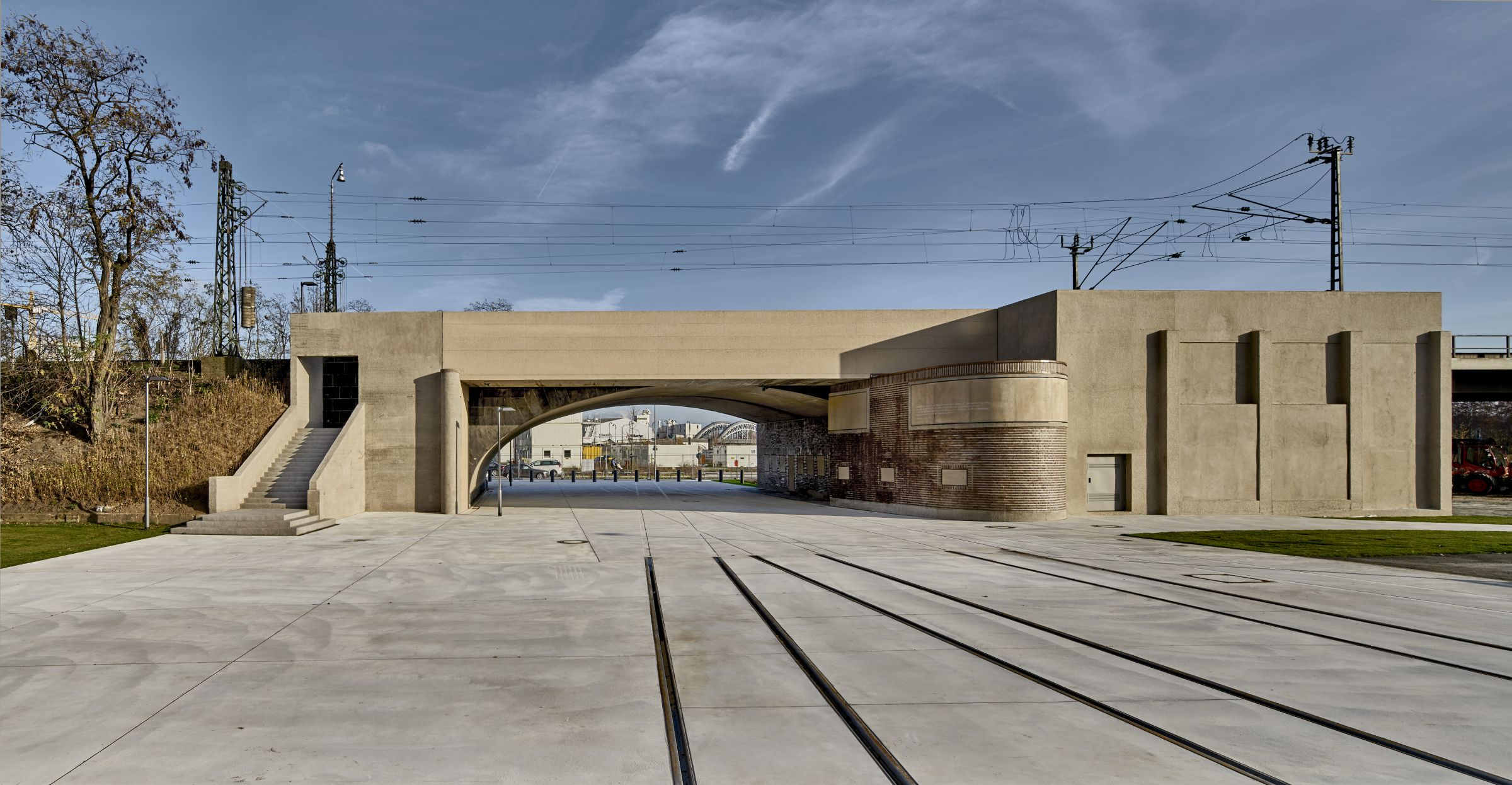 Holocaustmemorial at the former Frankfurt market hall. Railway track of the former trainstation from where around 10.000 Jews were deported.